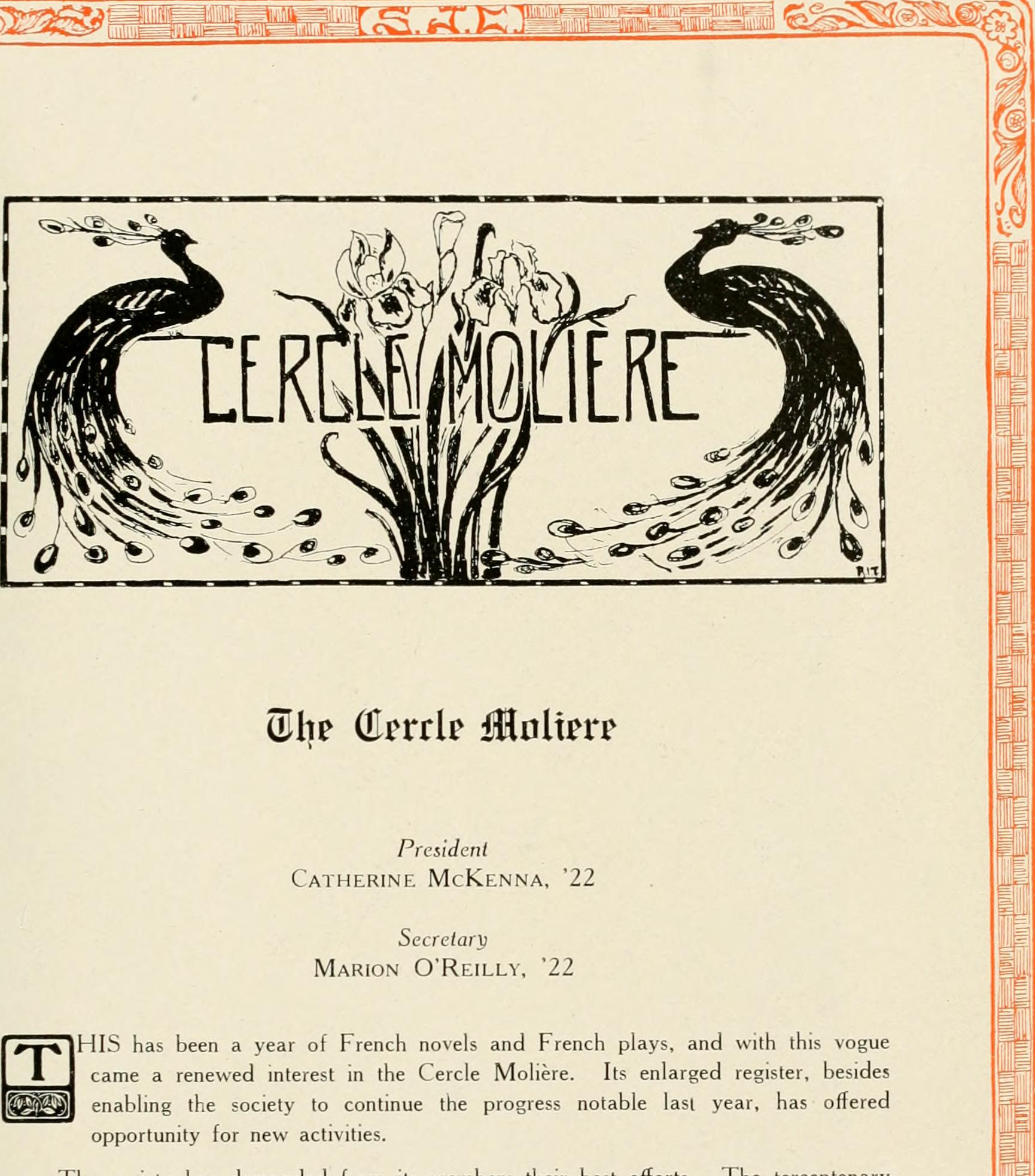 Title: Footprints Year: 1922 (1920s) Authors: St. Joseph's College, New York Subjects: Saint Joseph's College (Brooklyn, N.Y.)--Students--Yearbooks College yearbooks--New York--Brooklyn Saint Joseph's College (Brooklyn, N.Y.)--Alumni and alumnae Universities and colleges—Periodicals Publisher: St. Joseph's College, New York Text Appearing Before Image: Page Sixty-six ii m jgffig^s^ Text Appearing After Image: President Catherine McKenna, 22 Secretary Marion O'Reilly, 22 THIS has been a year of French novels and French plays, and with this vogue came a renewed interest in the Cercle Moliere. It's enlarged register, besides enabling the society to continue the progress notable last year, has offered opportunity for new activities. The society has demanded from its members their best efforts. The tercentenary of Molière could not go unmarked by the Cercle which bears his name. A tea, at which we hope to interest any friends in the great genius of France, has been planned. Our visitors will be given glimpses into the life of this master of the comedy and some appreciation of his work in three sketches from his most famous play, L'Avare.